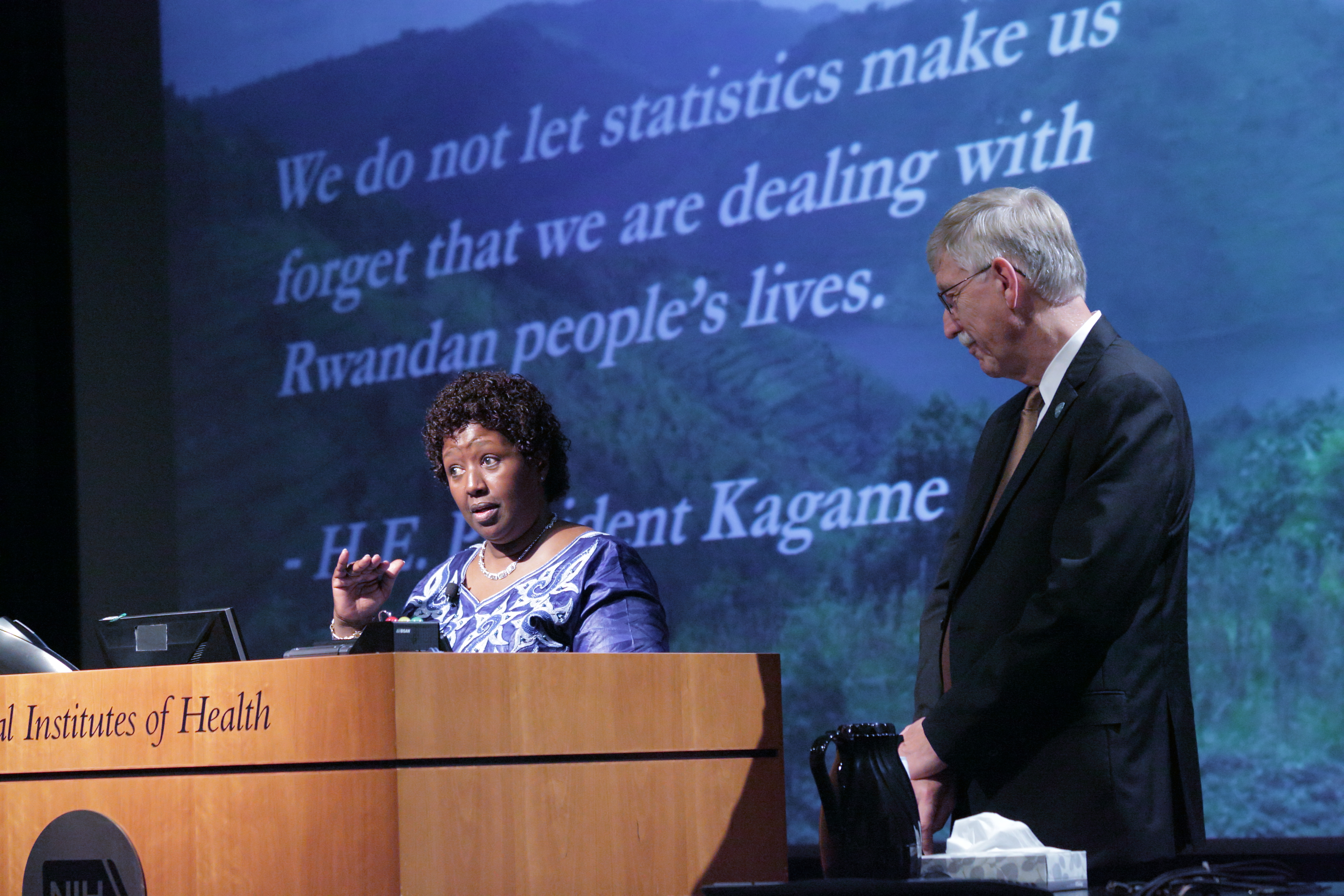 July 27, 2015 — Rwandan Minister of Health, Dr. Agnes Binagwaho, visited the NIH and delivered the 2015 David E. Barmes Global Health Lecture. She shared the lessons learned during her country's dramatic recovery from the 1994 genocide and said health has improved significantly, largely because of policy decisions based on scientific evidence, and such information should flow more freely so low-income countries can access it. The Minister's talk, "Medical Research and Capacity Building for Development: The Experience of Rwanda Credit: Fogarty International Center, National Institutes of Health